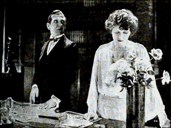 Still from the American film The Masquerader (1922) with Guy Bates Post and Ruth Cummings (listed as Ruth Sinclair), on page 59 of the October 1922 Photoplay.